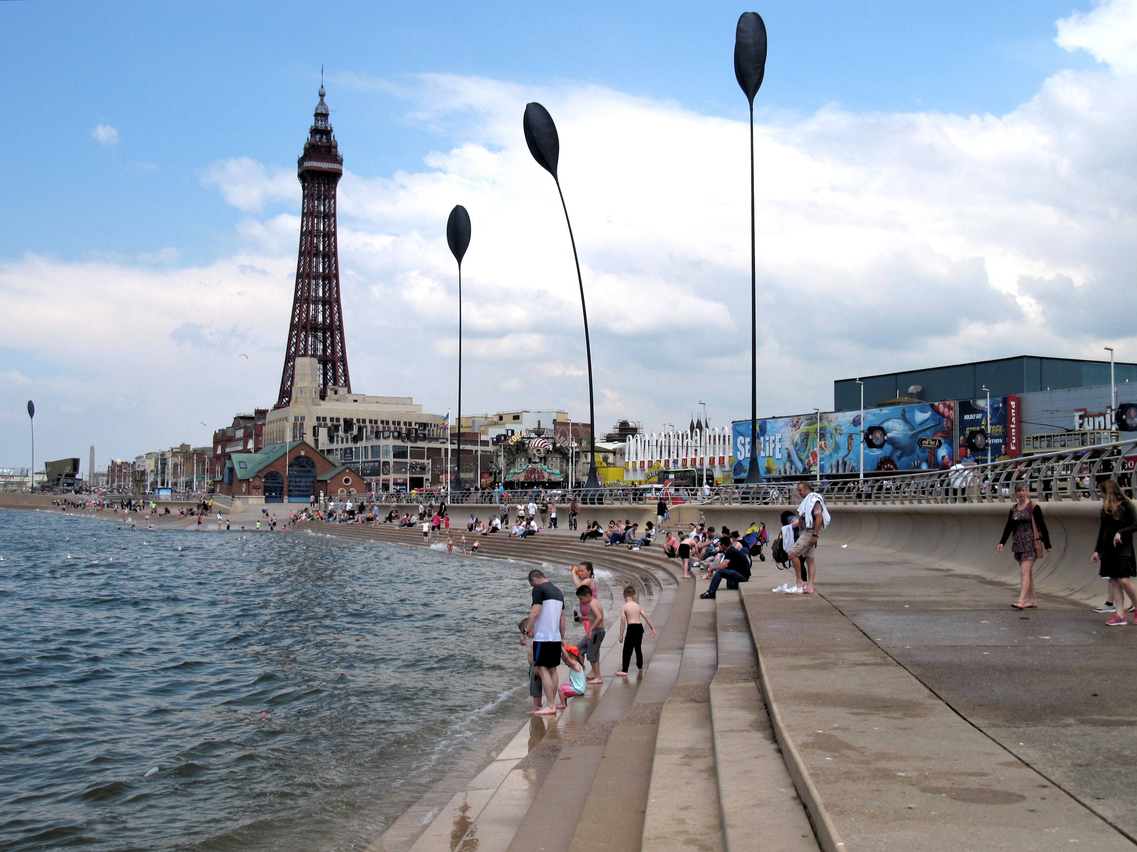 Blackpool promenade steps into the sea at high tide.